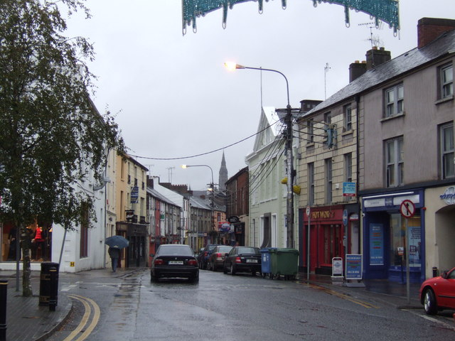 Dublin Street, Monaghan The first of the Christmas decorations are up.